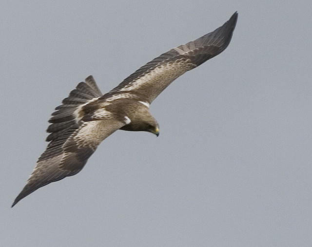 Booted Eagle showing the "Landing Lights" white markings on the wings/shoulders. An aid to identify this raptor. Sighting: Bundala, Sri Lanka